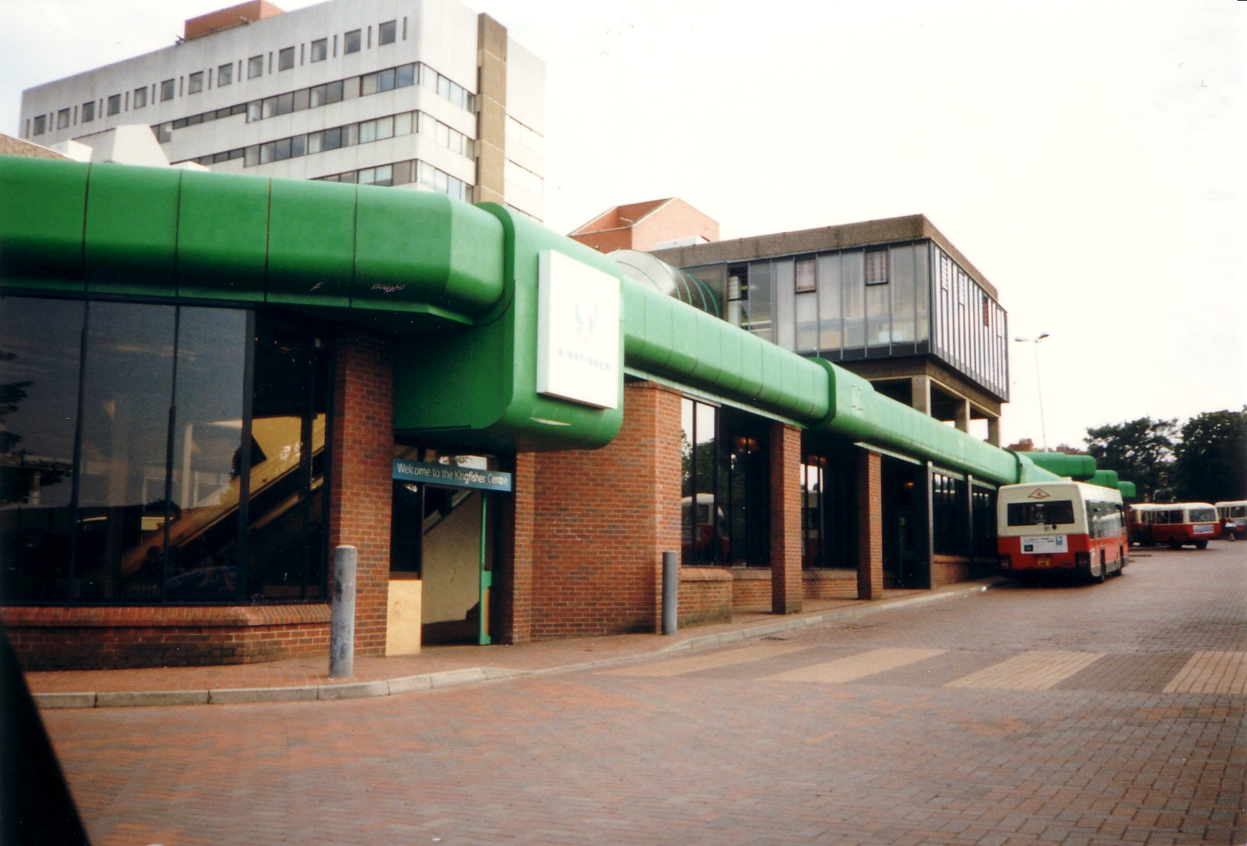 Photo of Redditch Bus station in Redditch, Worcestershire, UK, taken by me circa 1996. This building stands on the site of the original Redditch railway station, on the South side of Bromsgrove Road. It was demolished in 2000. Its distinctive green-and-glass look made it something of a local landmark. The famous Redditch postcard picture was taken from a similar angle.